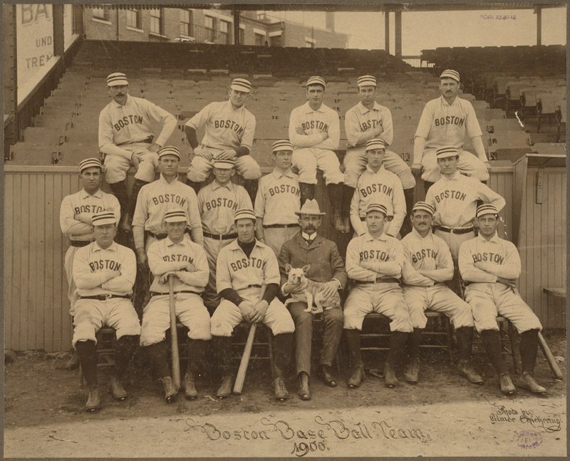 Boston National League baseball team. Team picture at the South End Grounds.Top row, left to right: Bobby Lowe, second baseman, Shad Barry, Chick Stahl, outfielder, Hugh Duffy, outfielder, Boileryard ClarkeMiddle row: Nig Cuppy, Buck Freeman, outfielder, Billy Sullivan, Bill Dineen, pitcher, Vic Willis, Ted Lewis, pitcherBottom row: Jack Clements, Billy Hamilton, outfielder, Kid Nichols, pitcher, Frank Selee, manager, Herman Long, shortstop, Fred Tenney, first baseman, Jimmie Collins, third baseman